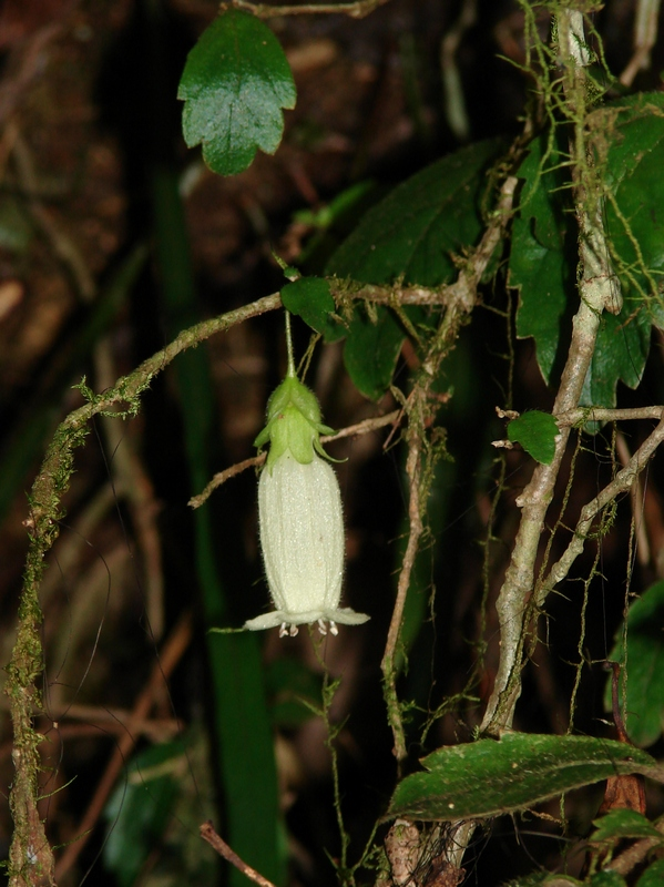 Fieldia australis Rare and inconspicuous sight of a flower in rainforest. Bell-shaped flower (~3cm) of the small climber . (sorry, I had to use flash for this shot) Found on the river bank at Picnic Rock - Lamington National Park, Queensland Australia